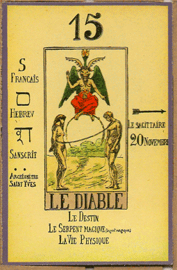 Page with tarot trump design from Papus: Le Tarot Divinatoire. Le Livre des Mystères et les Mystères du Livre. Clef du tirage des cartes et des sorts. Avec la reconstitution complète des 78 lames du Tarot Égyptien et de la méthode d'interprétation. Les 22 arcanes majeurs et les 56 arcanes mineurs. Libr. Hermétique, Paris 1909.